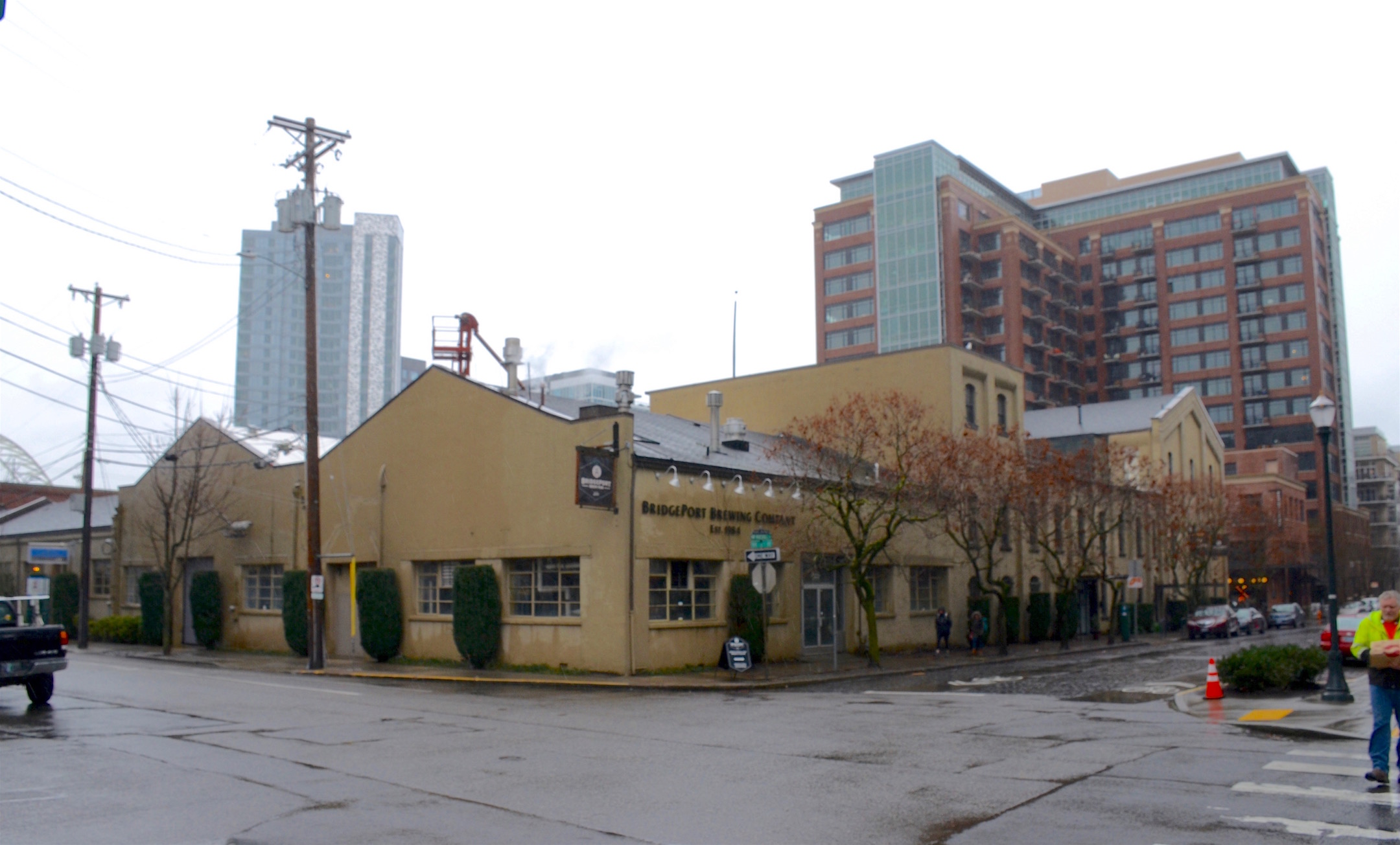 The production facilty and brew pub of the BridgePort Brewing Company, in Portland, Oregon, from the southwest, across the intersection of NW 14th Avenue & Marshall Street, about one month before its closure. It is listed on the U.S. National Register of Historic Places as the Portland Cordage Company Building.